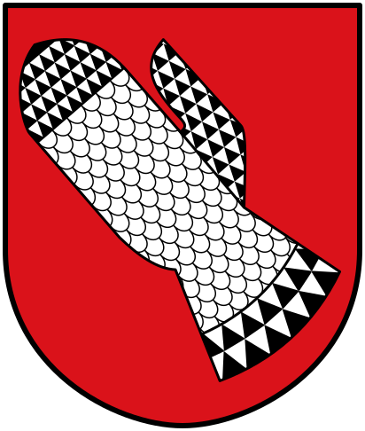 Wappen at volders